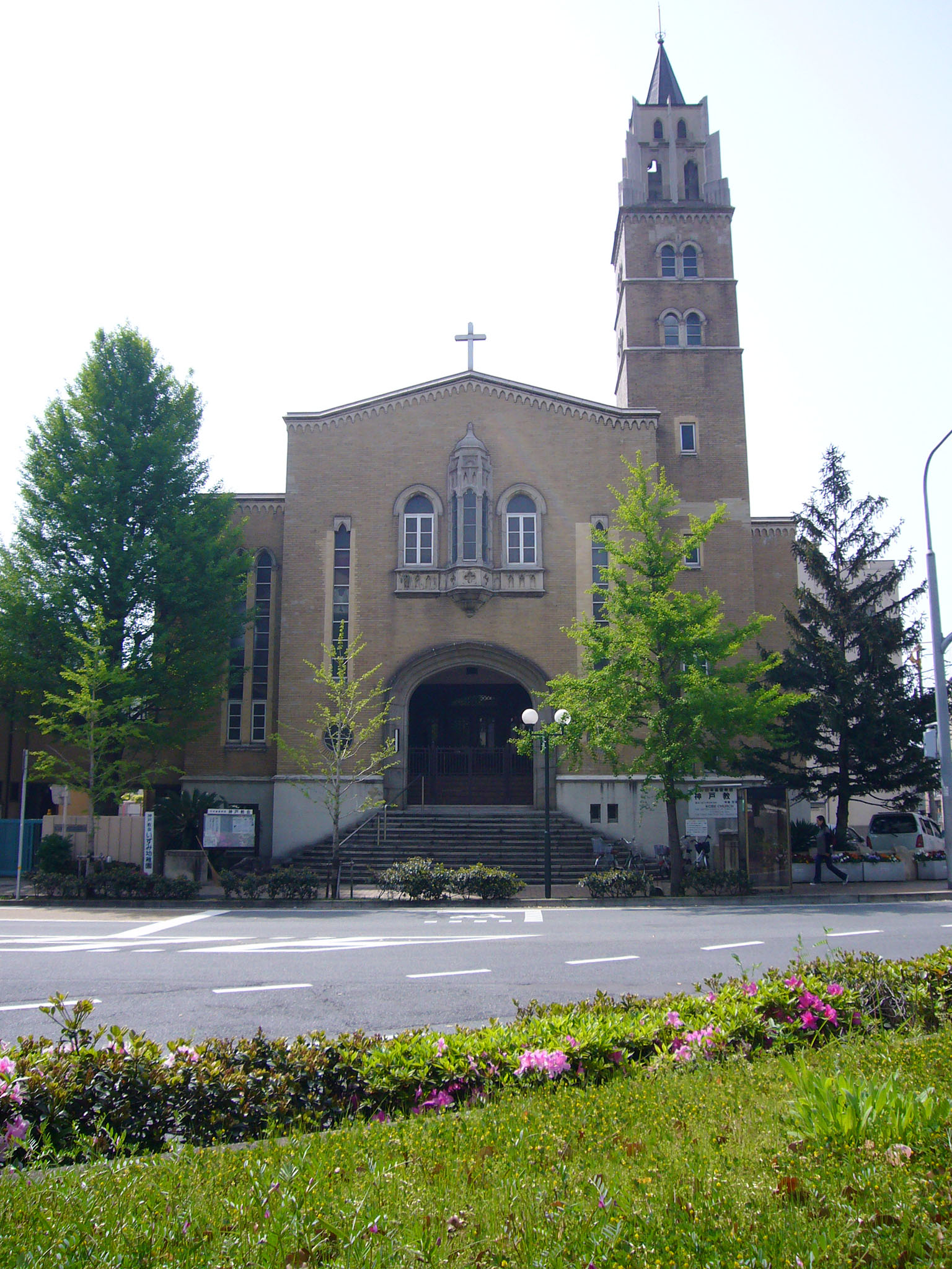 The Kobe Church, United Church of Christ in Japan, in Kobe, Japan